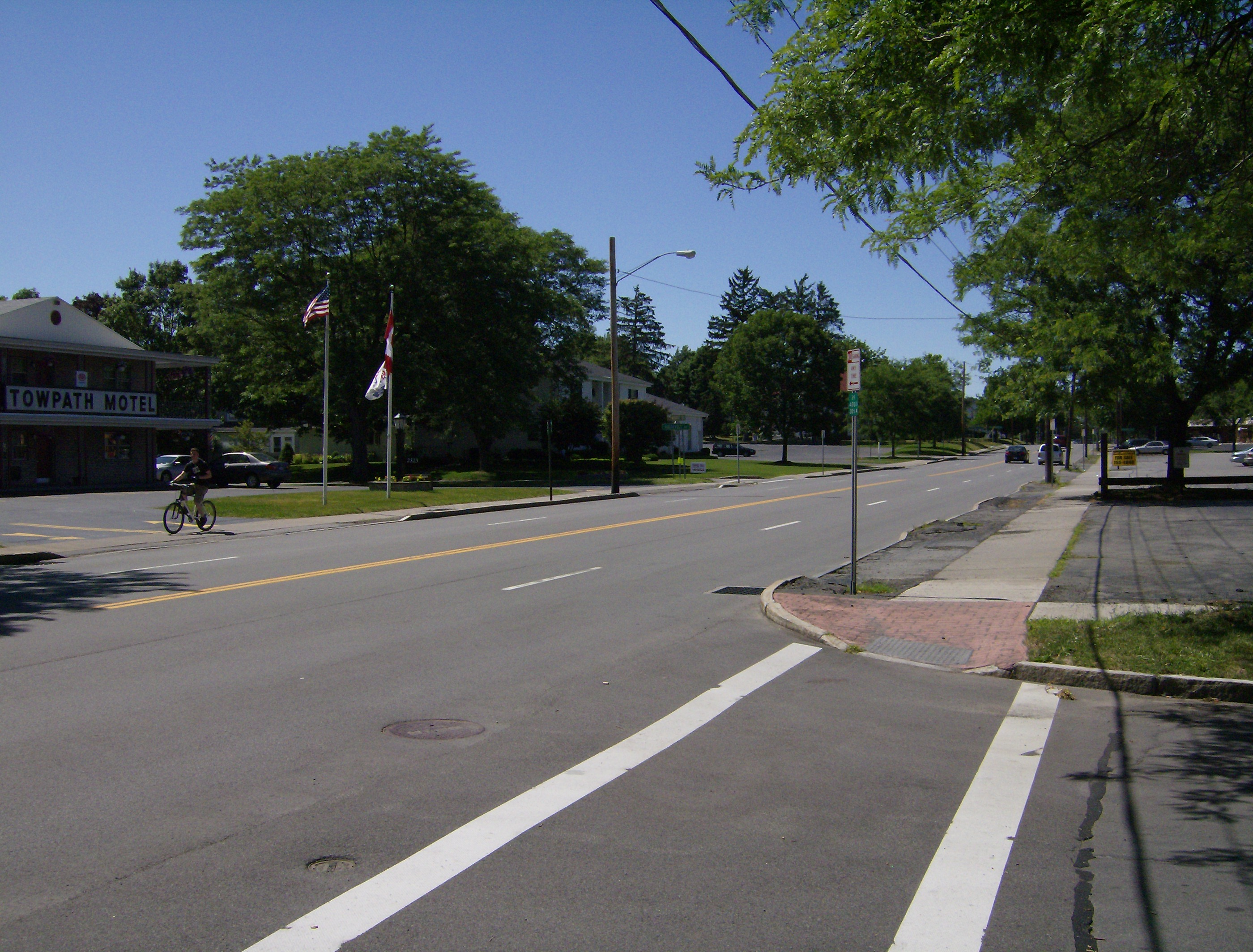 New York State Route 31 westbound in Brighton (title is incorrect).